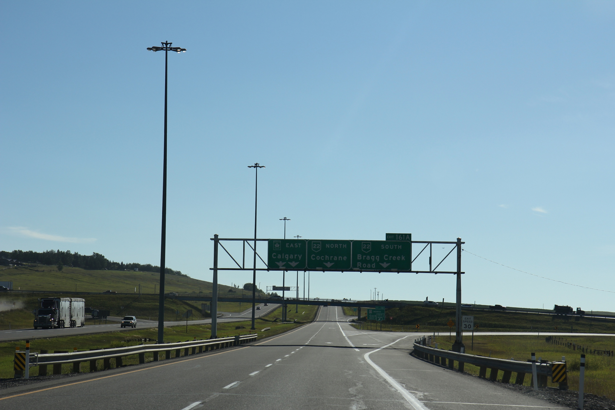 Alberta Highway 22 (Cowboy Trail) at the TransCanada Highway.